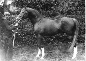 Mesaoud, a foundation sire of the Crabbet Arabian stud, imported from Egypt to England in 1891. Most arabian horses of todays breeding trace back to Mesaoud.